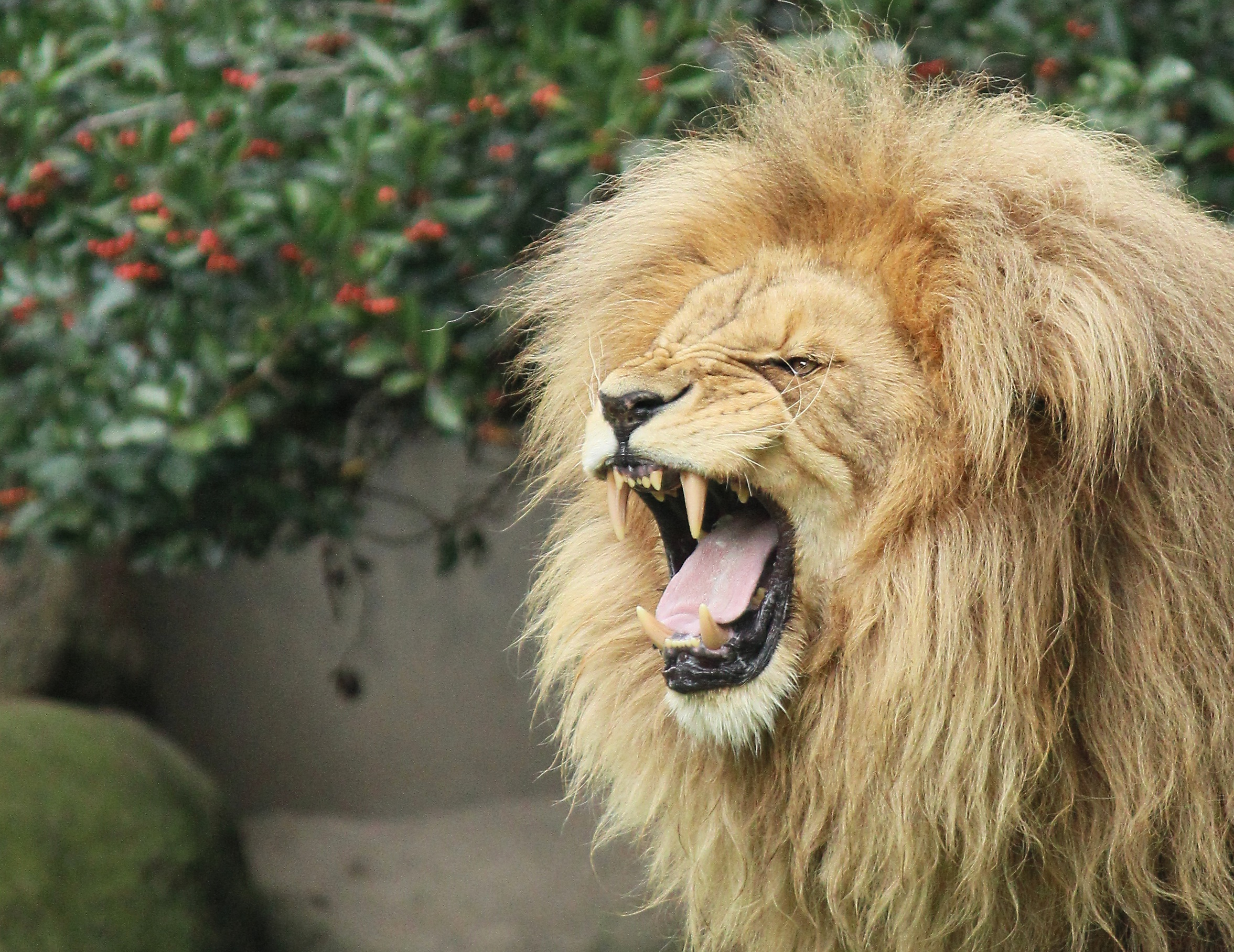 Flehmen response, Panthera leo bleyenberghi, African lion